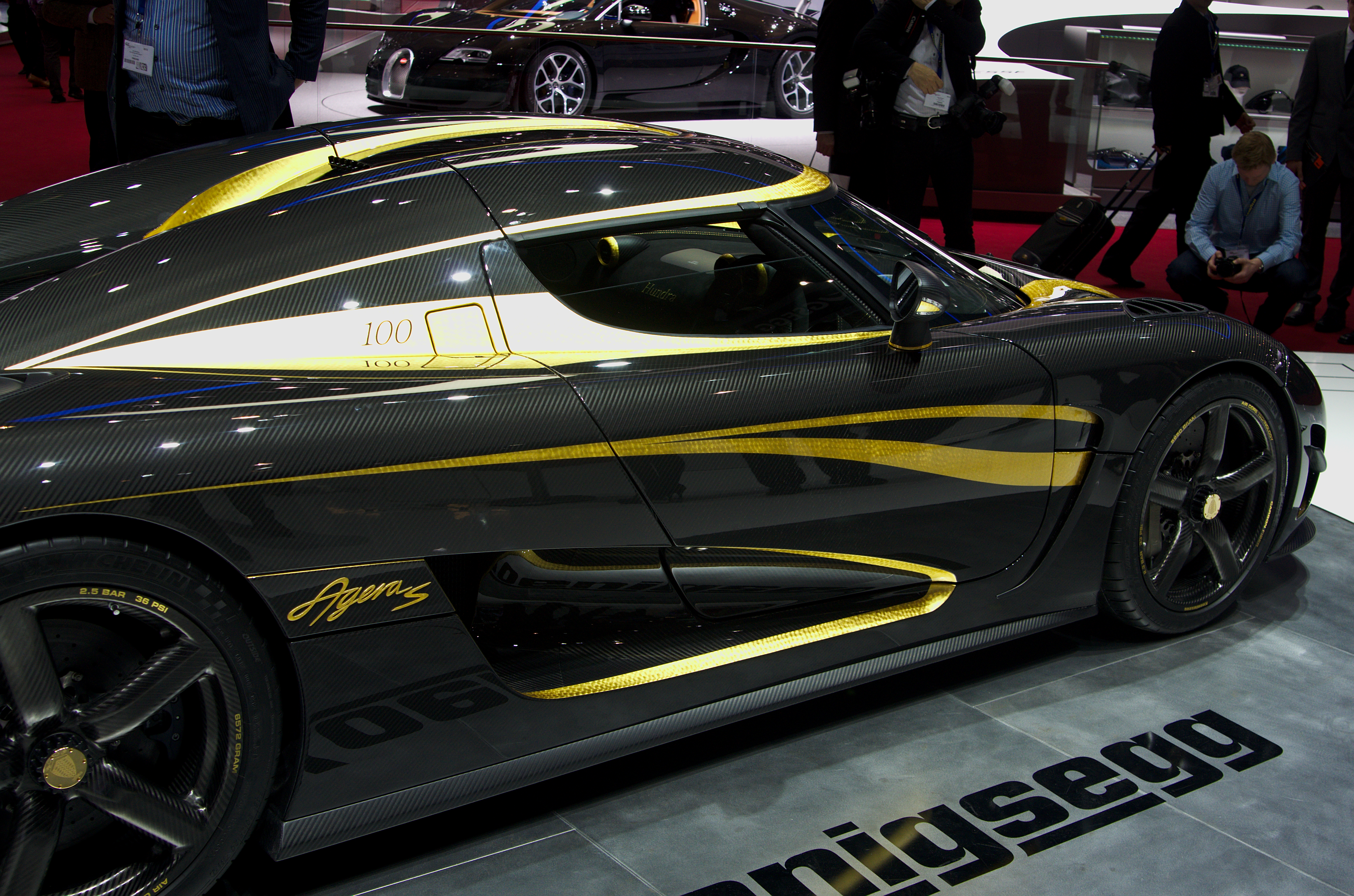 Geneva MotorShow 2013 - Koenigsegg Agera S Hundra right view